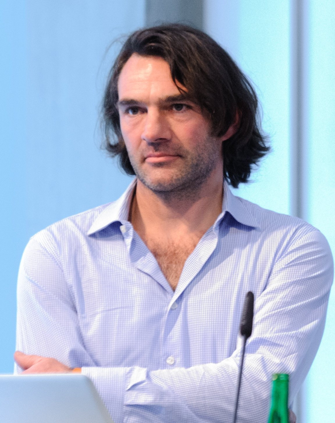 Corbinian Böhm (born 1966), German painter, installation artist and sculptor. (Foto: Stephan Röhl)